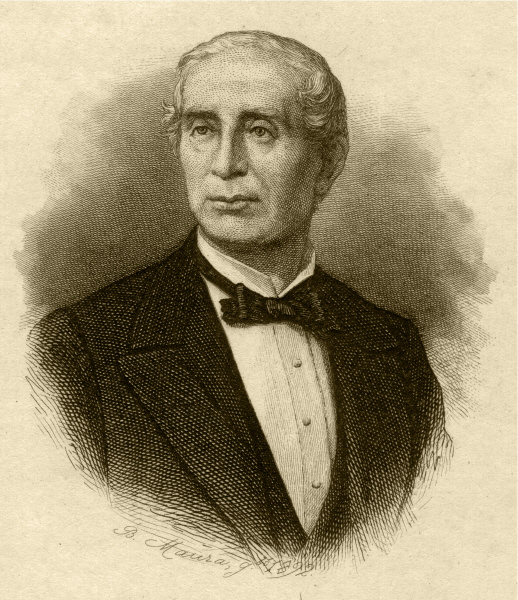 Fernando Blanco de Lema. Lithography by Bartolomé Maura, in 1892.